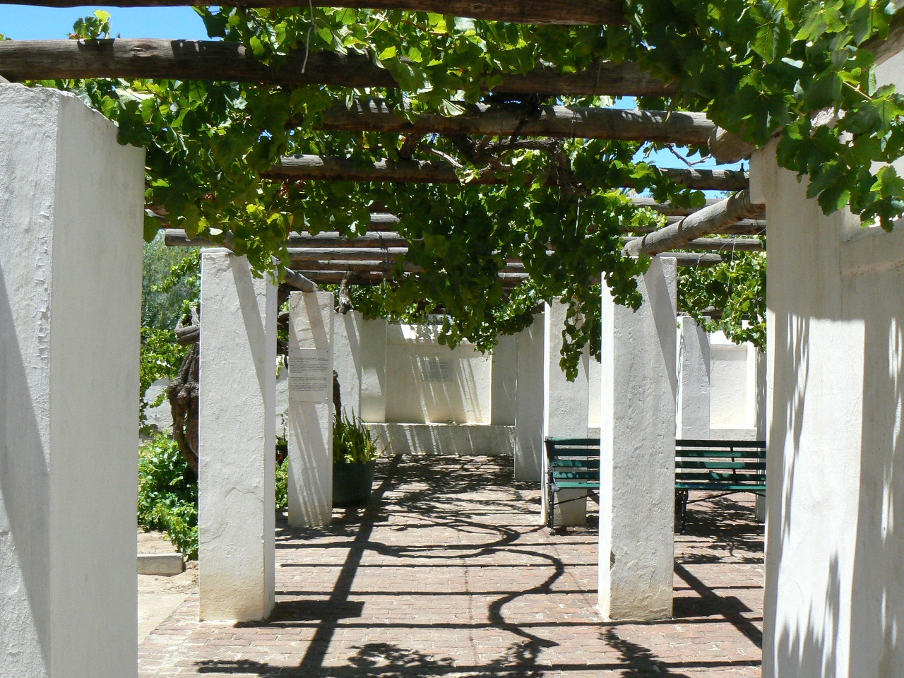 Reinet House, Murray Street, Graaff-Reinet, now a museum complex housing artifacts depicting life in the early years of Graaff-Reinet, this used to be the grape vine with the thickest stem in the world, until attacked by mildew that required much wood to be removed in order to save the plant.